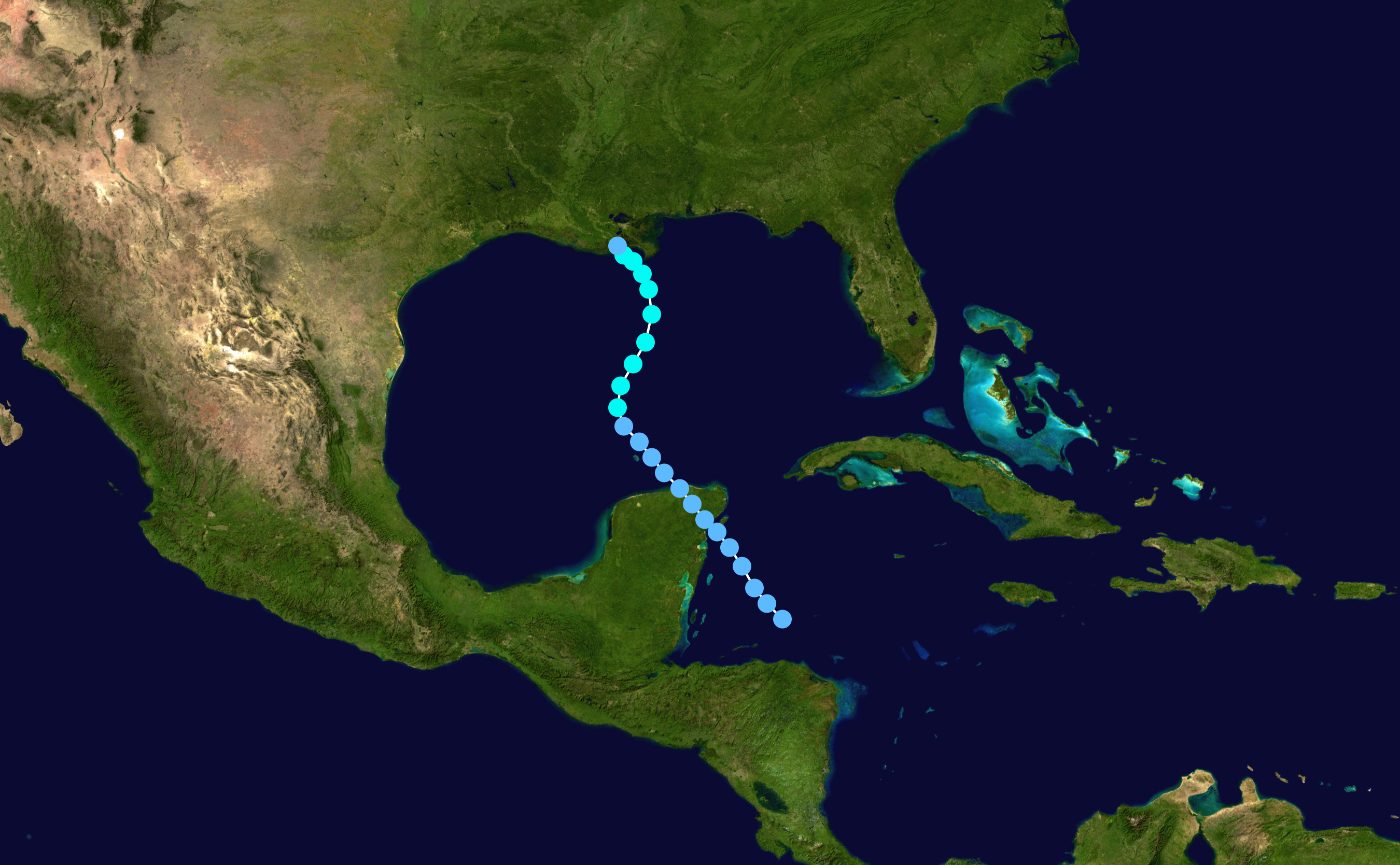 Track map of Tropical Storm Debbie of the 1965 Atlantic hurricane season. The points show the location of the storm at 6-hour intervals. The colour represents the storm's maximum sustained wind speeds as classified in the Saffir–Simpson scale (see below), and the shape of the data points represent the nature of the storm, according to the legend below. Saffir–Simpson scale Tropical depression≤38 mph≤62 km/h Category 3111–129 mph178–208 km/h Tropical storm39–73 mph63–118 km/h Category 4130–156 mph209–251 km/h Category 174–95 mph119–153 km/h Category 5≥157 mph≥252 km/h Category 296–110 mph154–177 km/h Unknown Storm type Tropical cyclone Subtropical cyclone Extratropical cyclone / Remnant low / Tropical disturbance / Monsoon depression